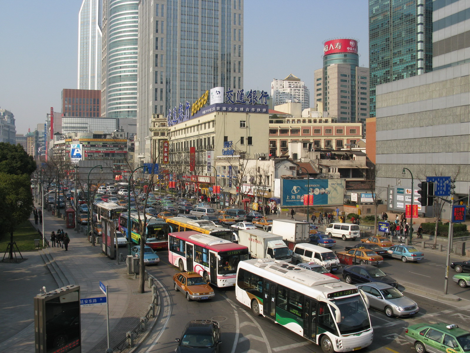 Central Xizang Road, East Yan'an Road